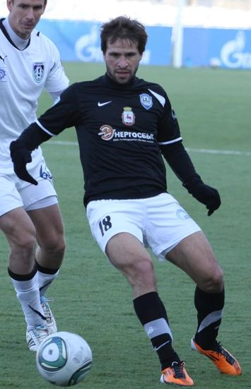 Vadim Gagloyev with FC Nizhny Novgorod.